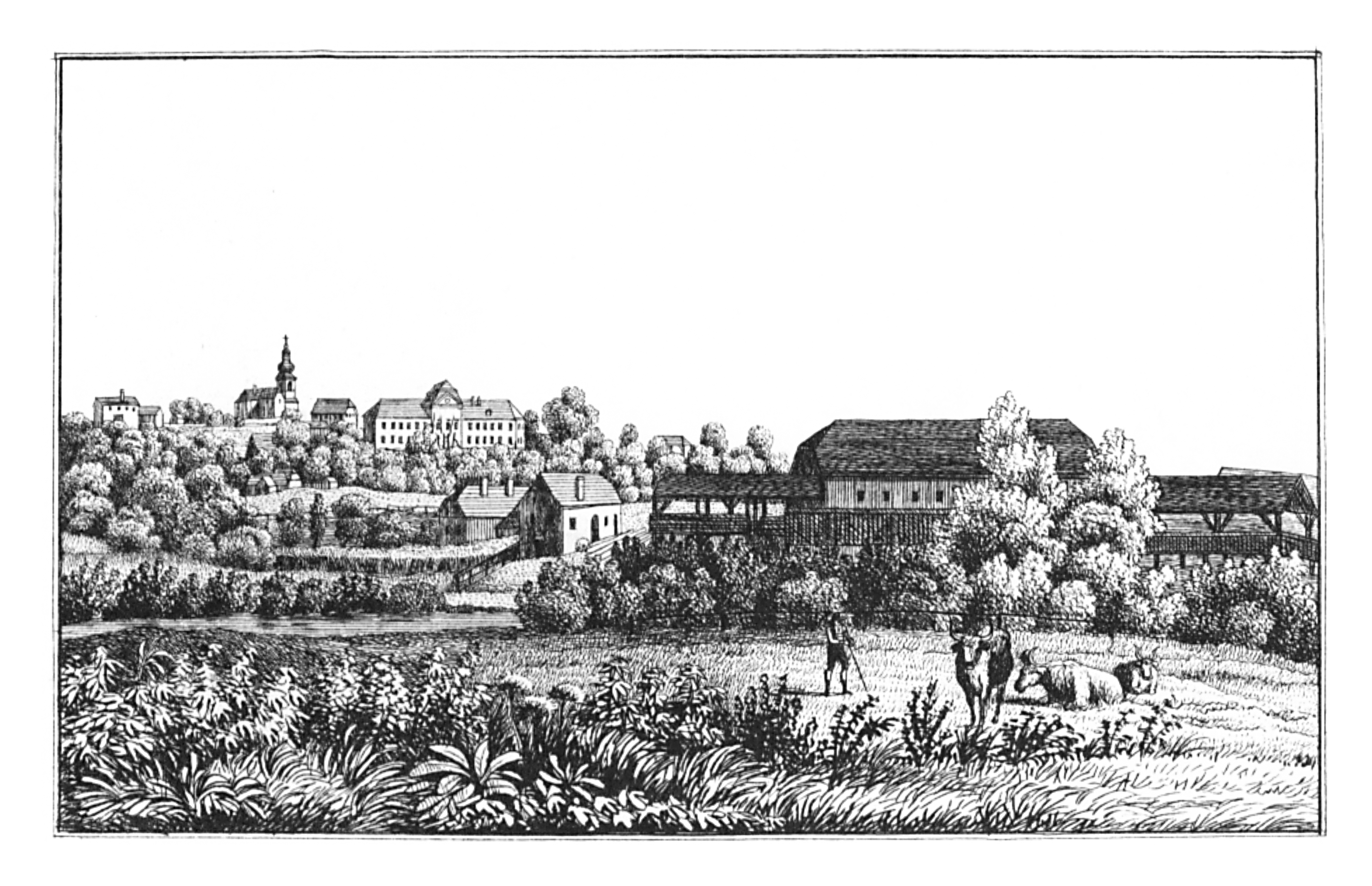 J. F. Kaiser - lithographirte Ansichten der Steyermärkischen Städte, Märkte und Schlösser, Graz 1824-1833 Joseph Franz Kaiser (1786–1859) Alternative names J. F. KaiserDescriptionAustrian printer and editorDate of birth/death 11 March 1786 19 September 1859Location of birth/death Graz (Styria) GrazAuthority control : Q1499963 VIAF: 30629353 ISNI: 0000 0000 3083 0153 LCCN: n87141671 GND: 129880159 NLP: A24960305 WorldCat creator QS:P170,Q1499963 . Scanprojekt Community Projektbudget 2012 This scan or this PDF-file was created within the GLAM-project Bookscanning, supported by Wikimedia Germany and Wikimedia Austria as a part of the community-project to capture books, documents and pictures which are not eligible to copyright or for which the copyright has expired. This document describes or depicts an object which is located in Austria today. Send requests for uncompressed scans to Hubertl. This work is in the public domain in its country of origin and other countries and areas where the copyright term is the author's life plus 100 years or less. You must also include a United States public domain tag to indicate why this work is in the public domain in the United States. This file has been identified as being free of known restrictions under copyright law, including all related and neighboring rights.